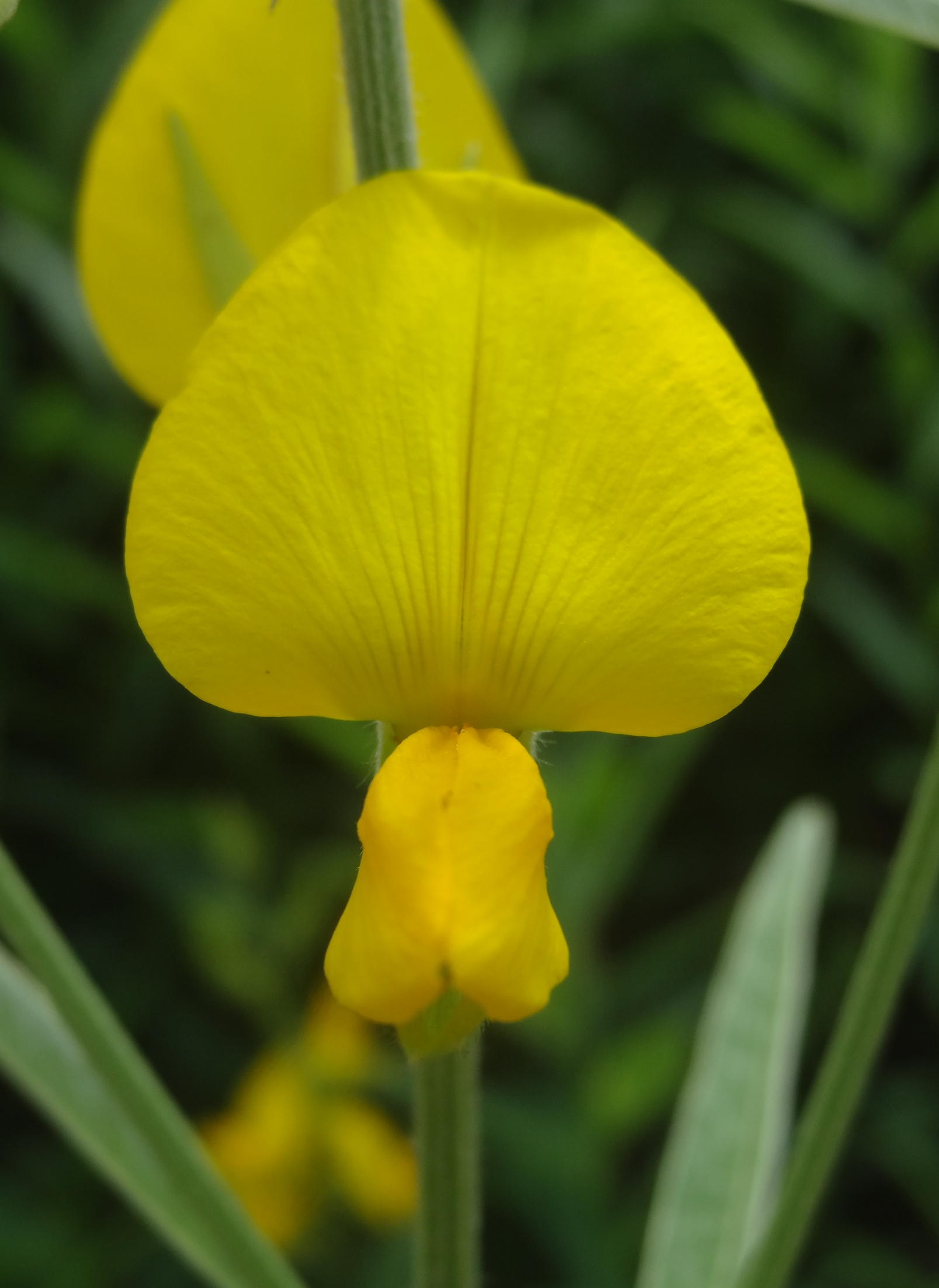 jute flower in alaveddi, jaffna , northern province, sri lanka